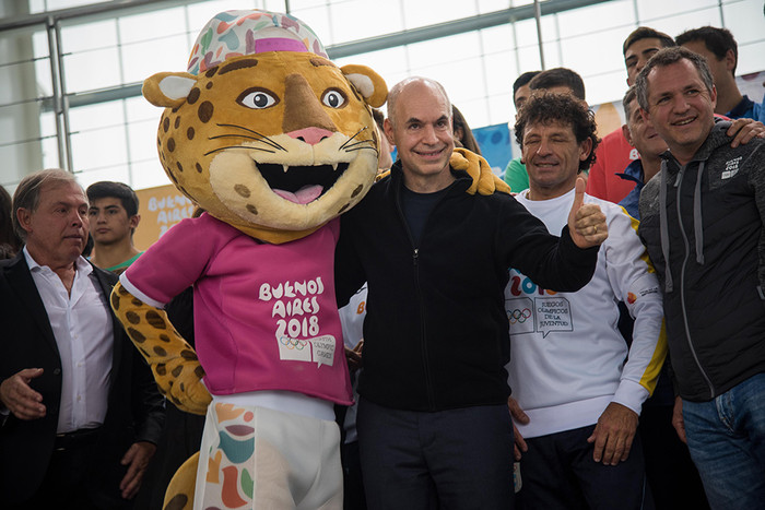 Horacio Rodríguez Larreta alongside #Pandi.